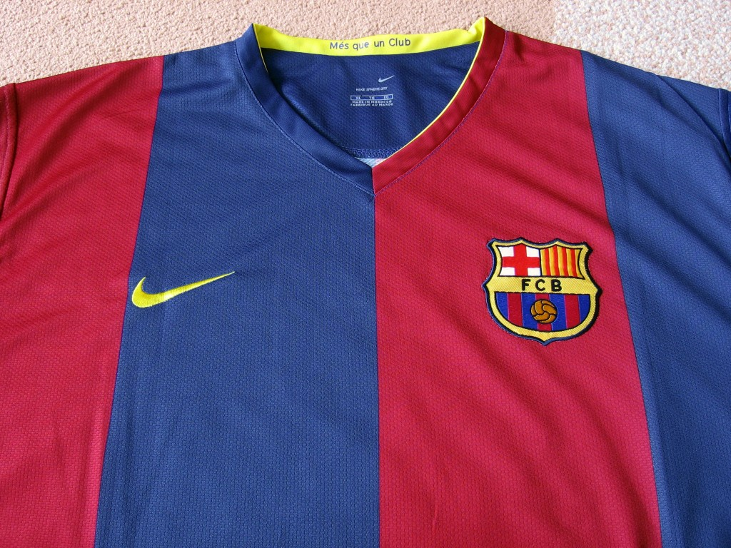 FC Barcelona shirt.